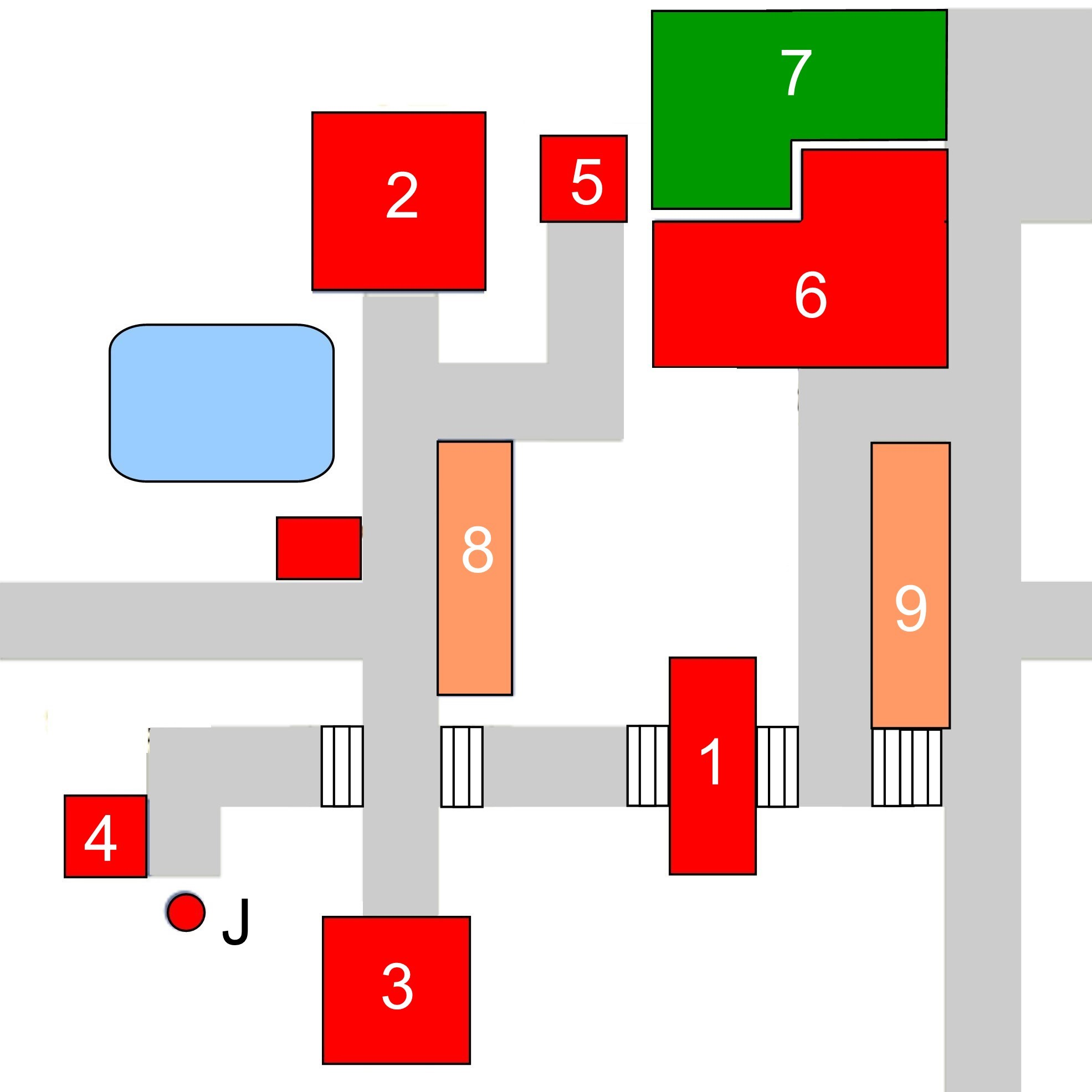 Layout of Chikurini temple at Kôchi, Japan